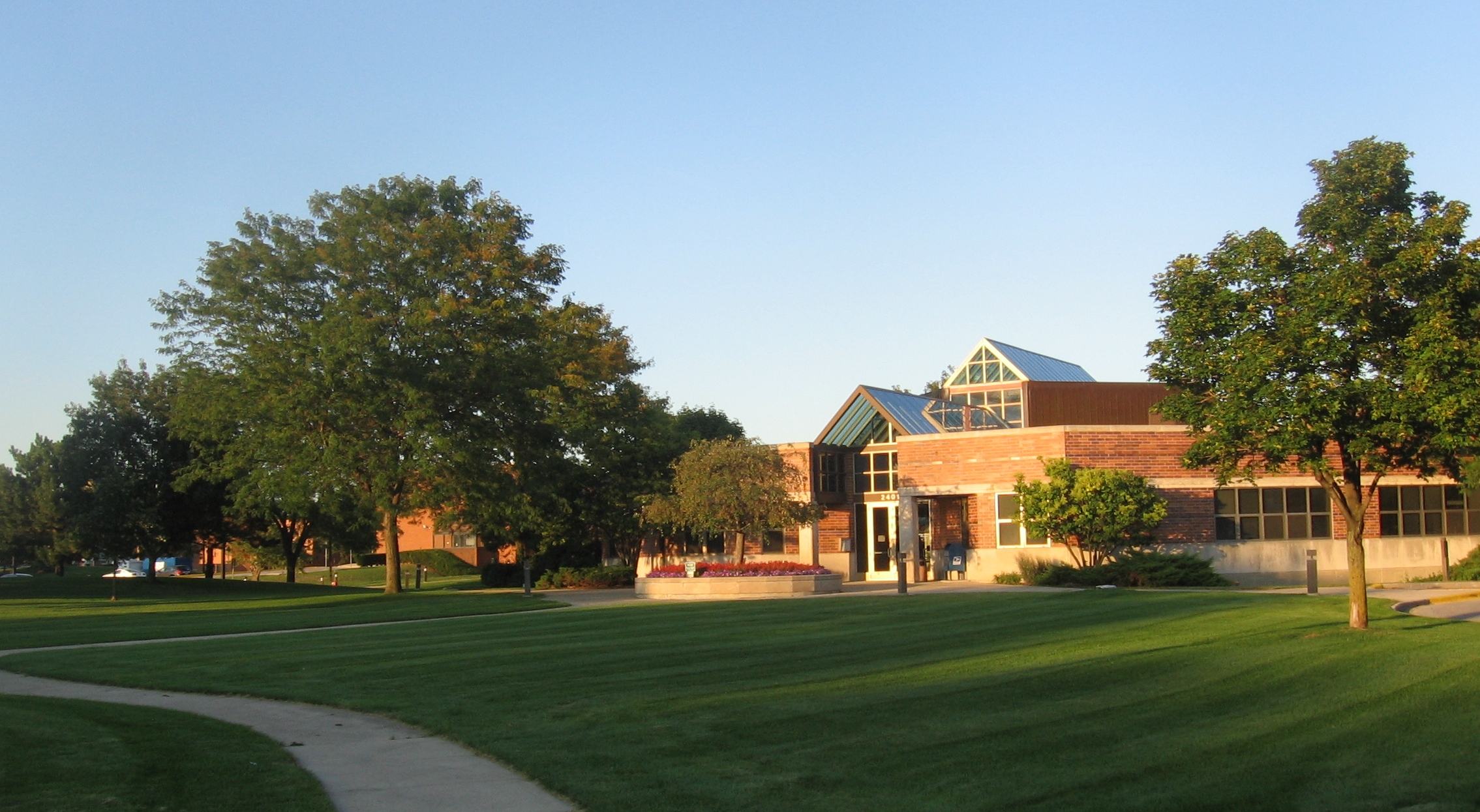 The North Riverside Illinois Commons Building. The Police Station can be seen in the distance on the left.